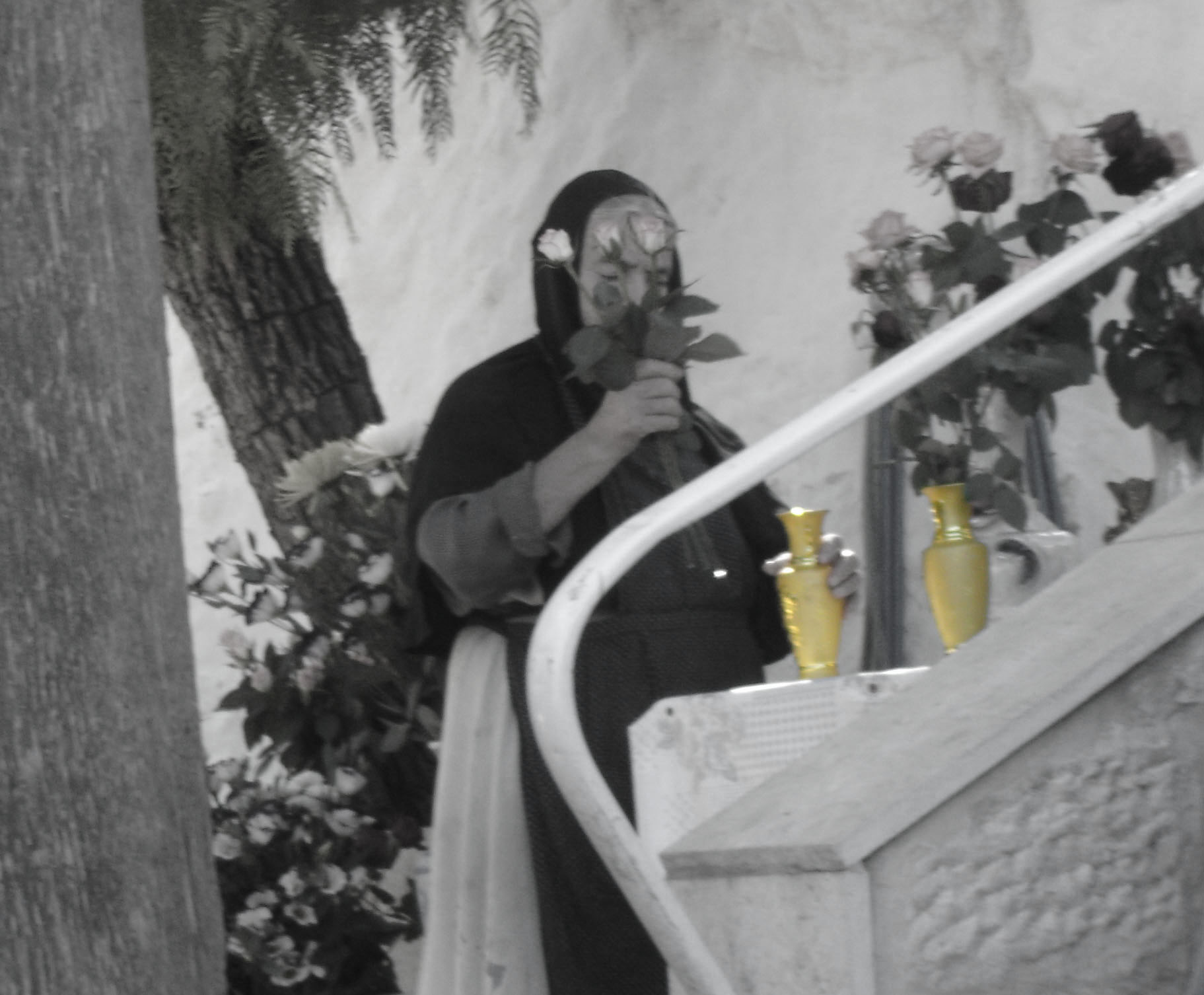 Orthodox Nun setting flowers in golden vases in Gorney monastery, Ein Karem, Jerusalem.